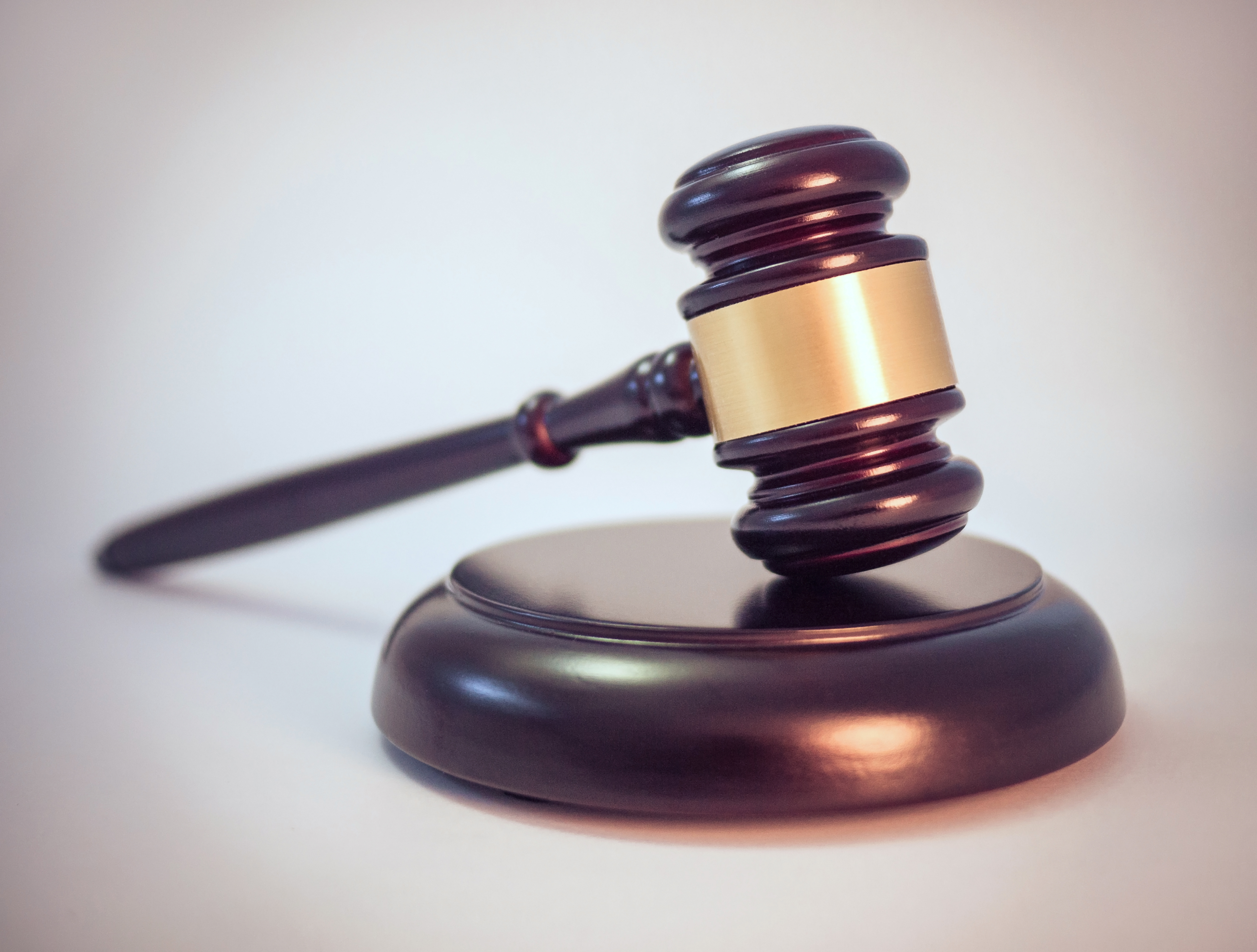 Legal Gavel.